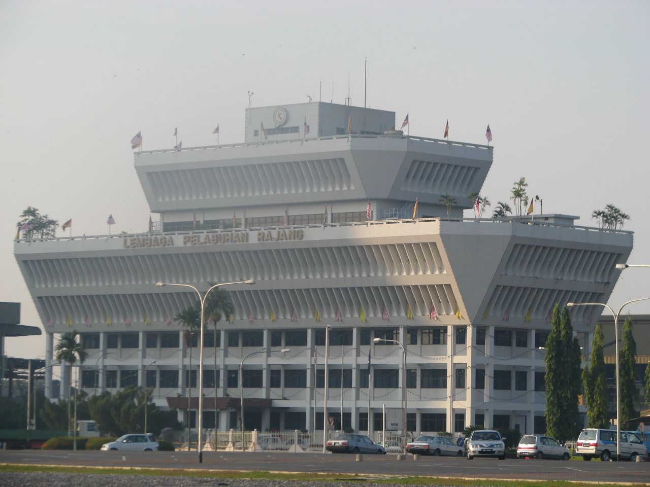 The Rajang Port Authority located at Jalan Pulau, Sibu, Sarawak.